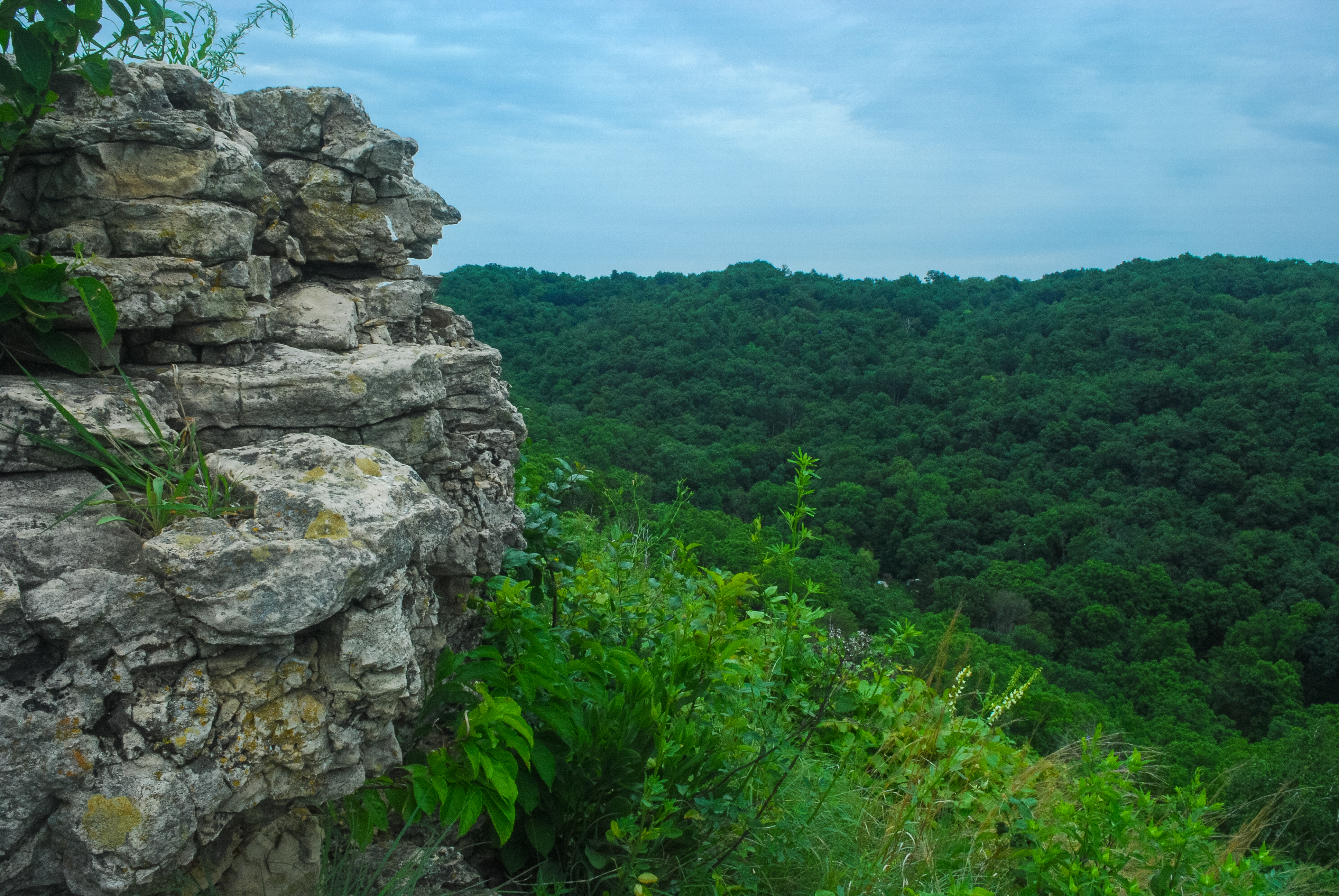 Sugar Creek Bluff Wisconsin State Natural Area #338 Crawford County